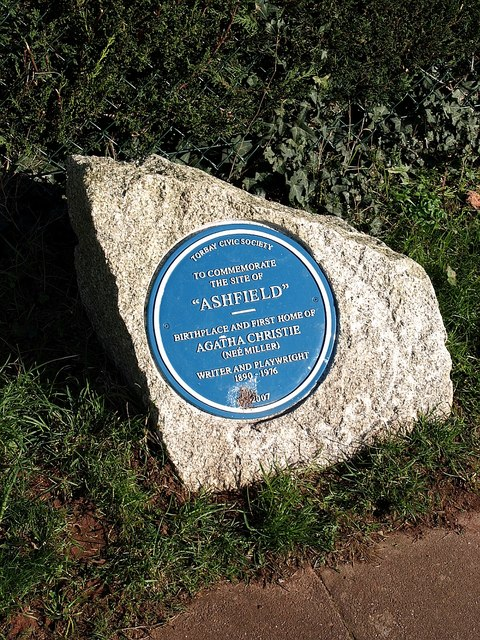 Plaque, Barton Road Eventual commemoration of the site of Agatha Christie's birthplace and childhood home, Ashfield, which was demolished in 1962. This spot does not feature on the Agatha Christie Mile Walk.